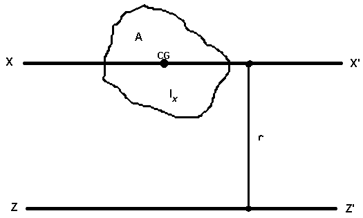 Changed version of Parallelaxes.png by User:Sonett72. Distance between axes was changed from "d' to "r" to match equations in [Parallel axis theorem].